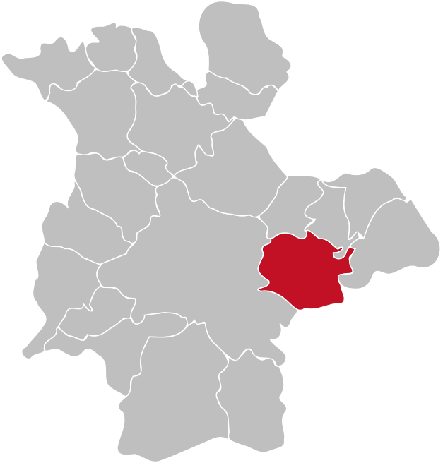 Location of the district Kaan-Marienborn within Siegen, Germany. Red/Grey colors match the color scheme of Germany maps and information boxes in German Wikipedia. District is highlighted in red.